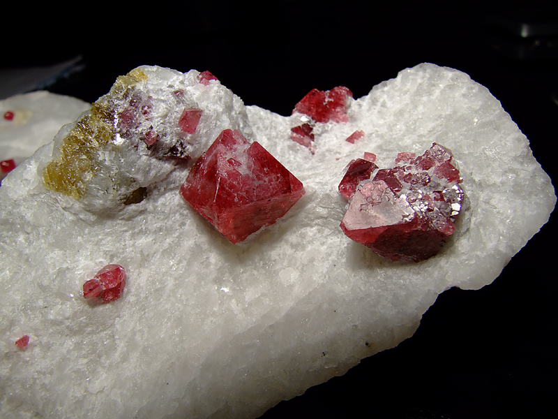 sharp spinel crystals in white marble/calcite matrix from Luc Yen, Yen Bai Province, Vietnam